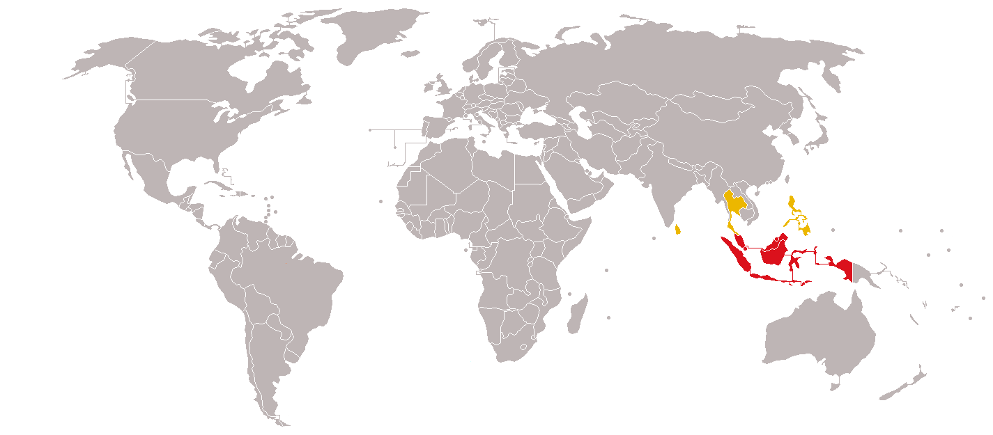 Map of Malay world and areas historically influenced by Malay culture.